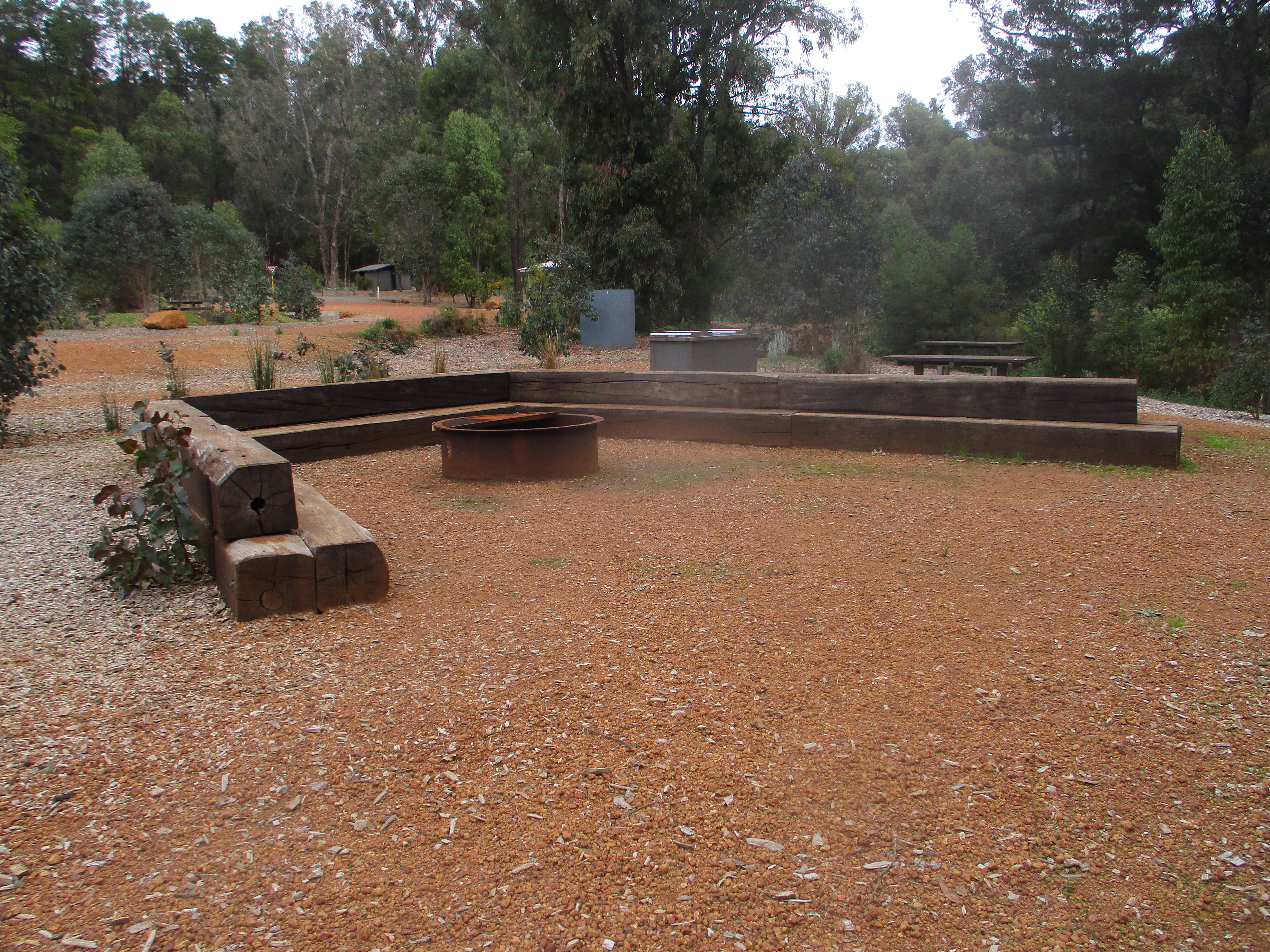 Nanga Brook campground, Lane Poole Reserve